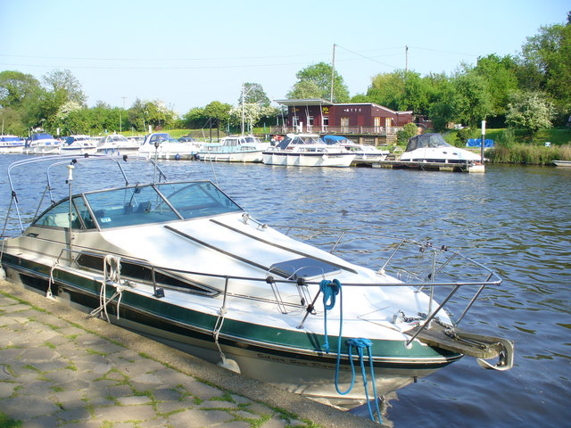 Thames at Sunbury Thames reach with expensive riverside homes plus boat houses and moorings.